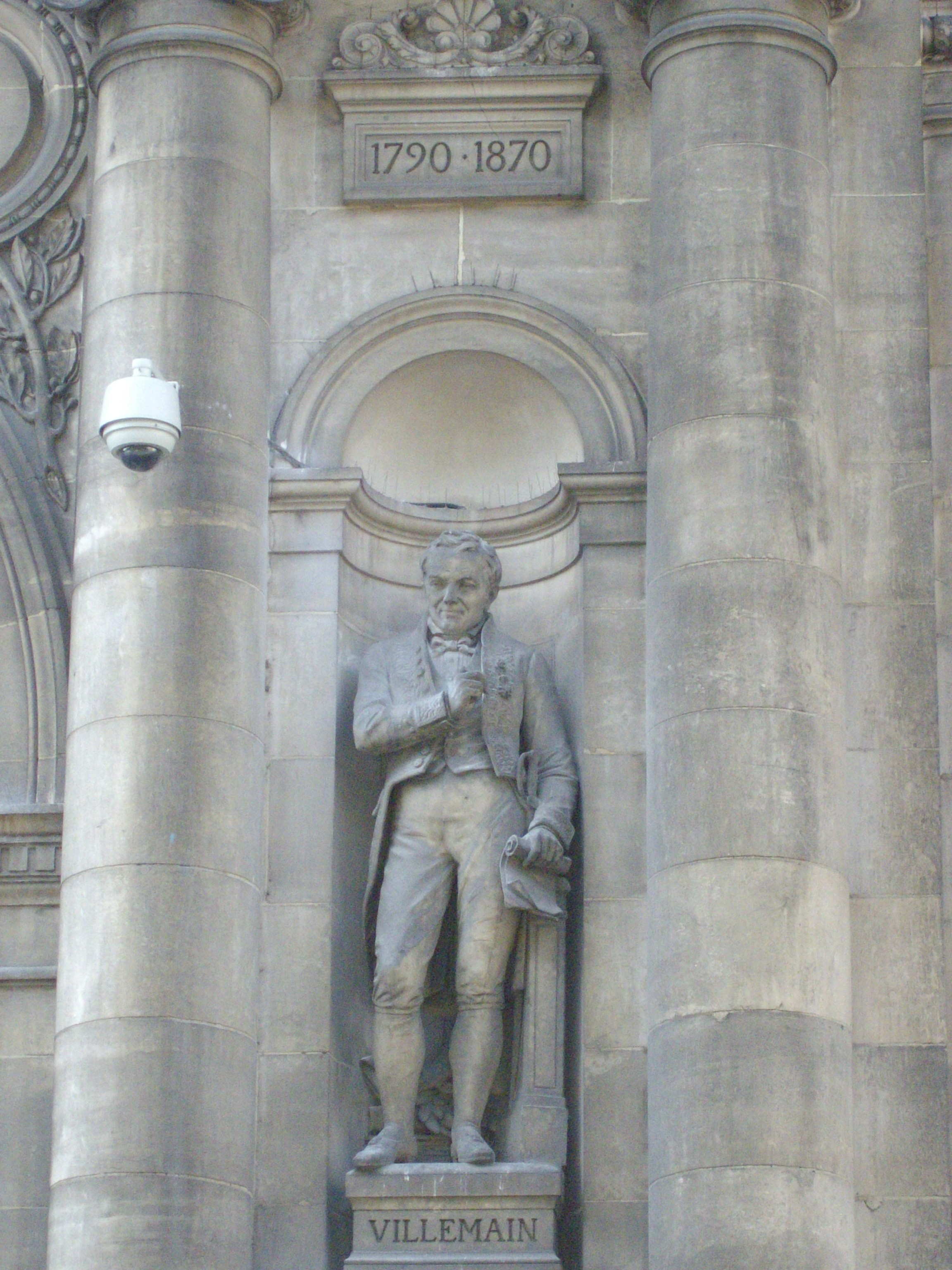 Statues of the City Hall in Paris, France